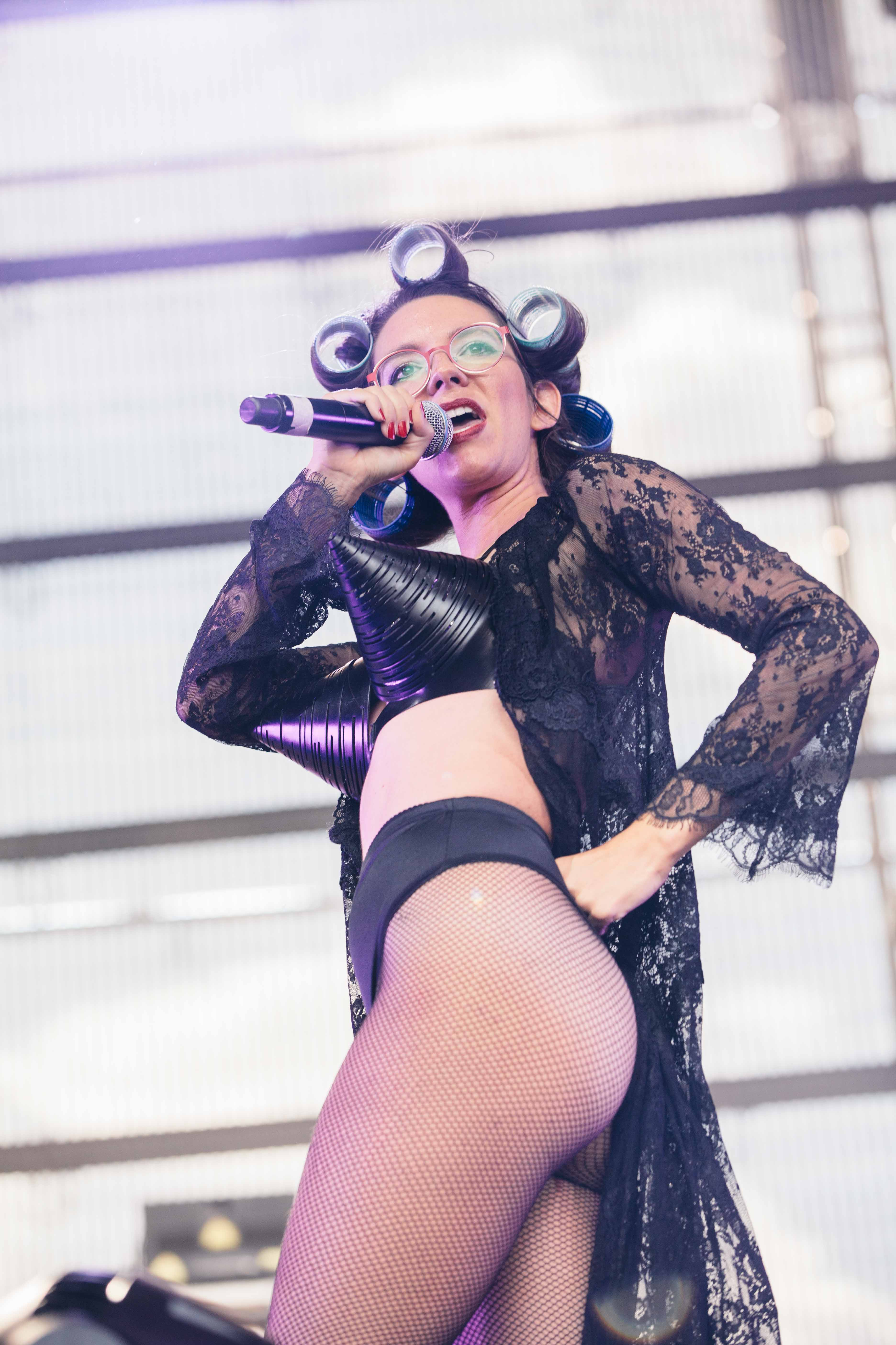 Rapper/Performance artist Boyfriend performs live in 2015.